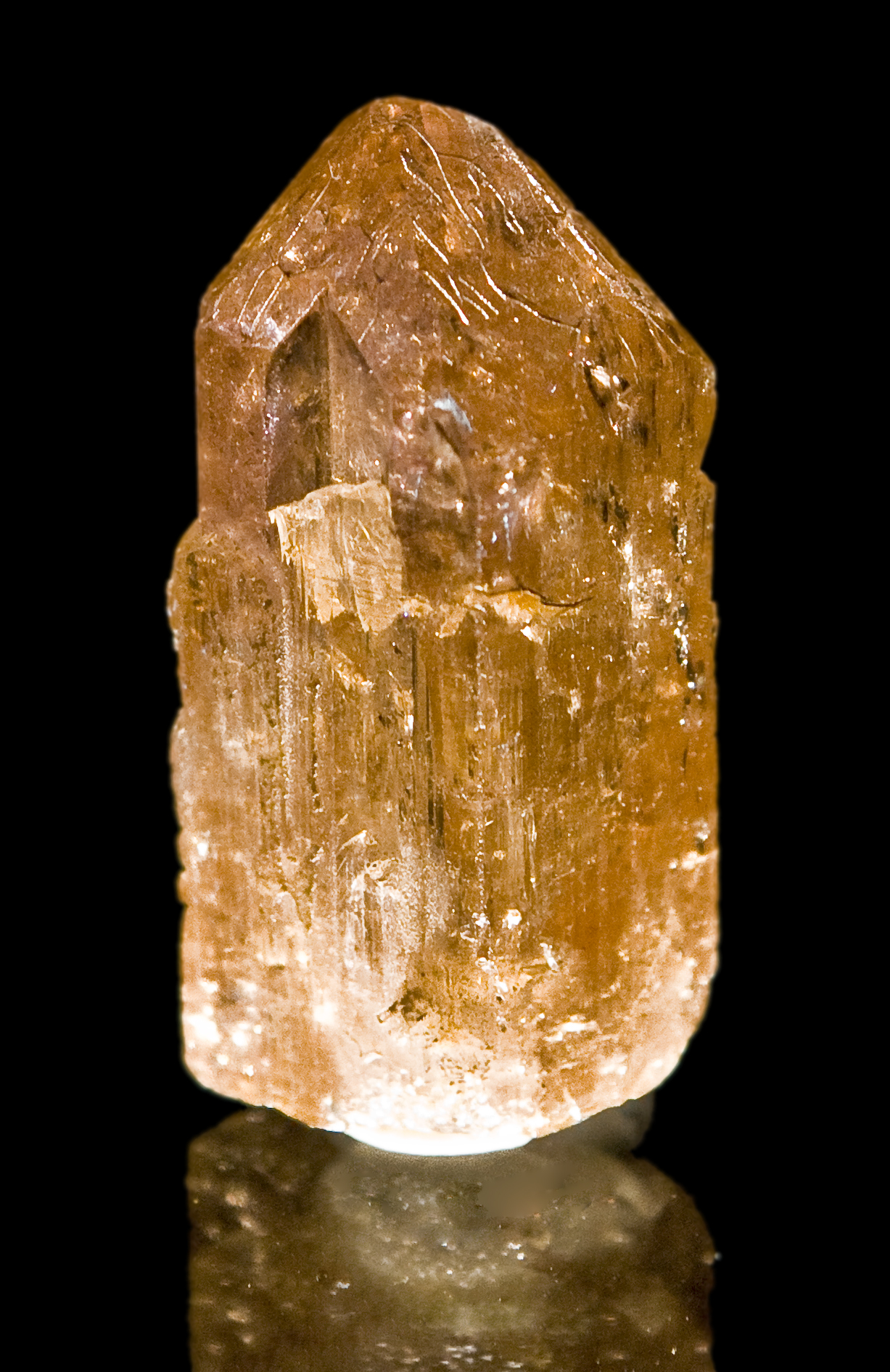 Topaz Locality : Vermelhão Mine, Saramenha, Ouro Preto, Minas Gerais, Southeast Region, Brazil, Size (3x1.5cm)